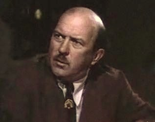 Edgar Kennedy (1890-1948) in A Star Is Born - trailer (cropped screenshot)